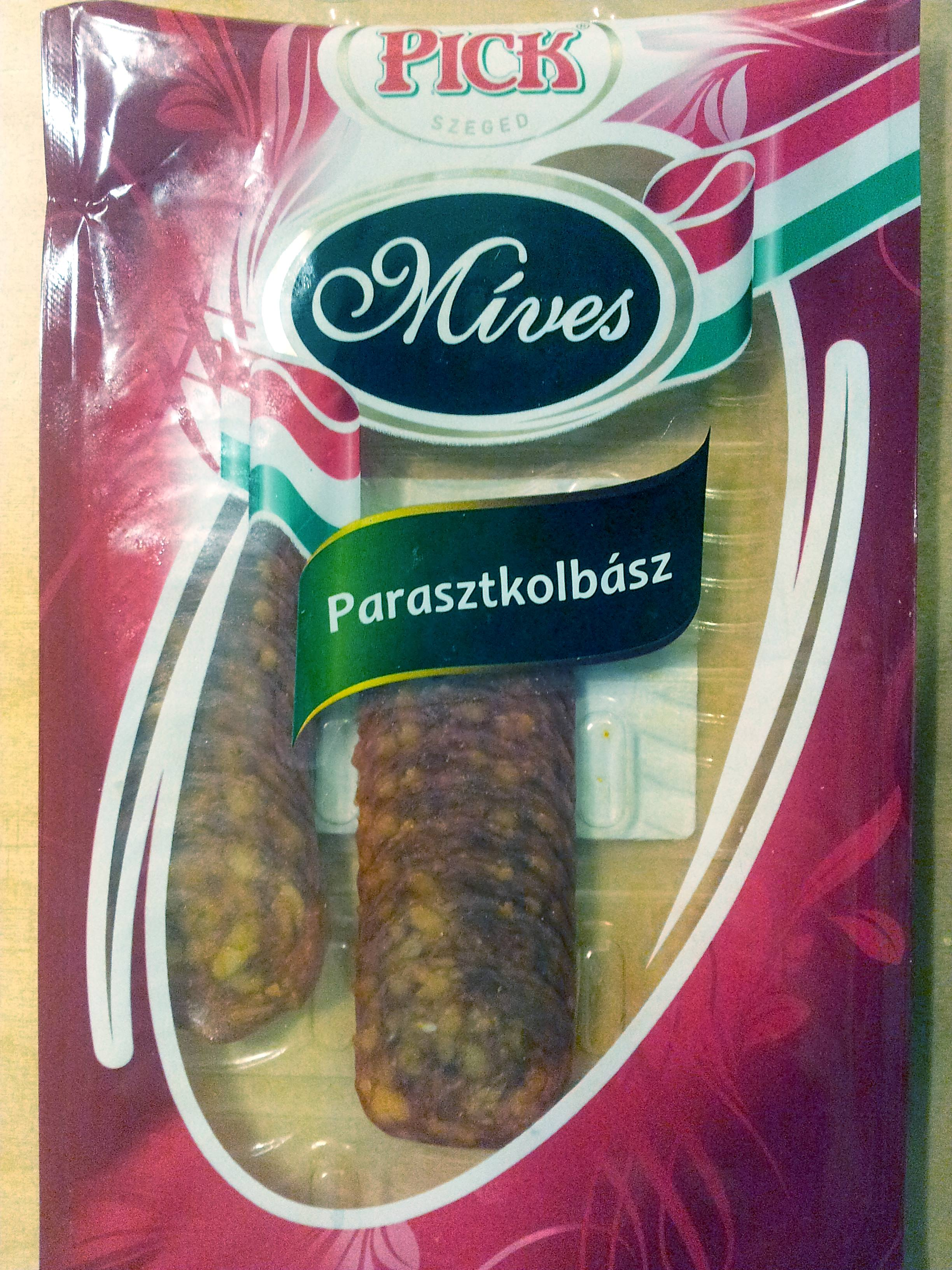 Pick szeged salami The company was founded by Márk PICK in 1869